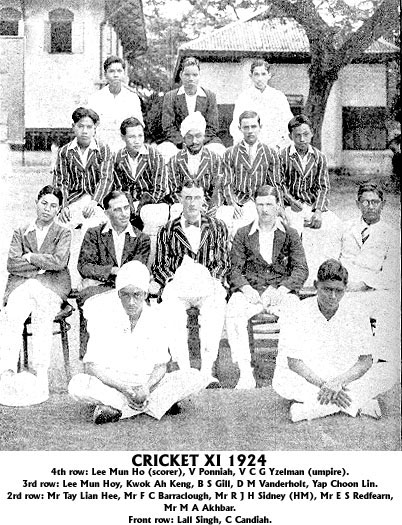 Victoria Institute Cricket Team 1924